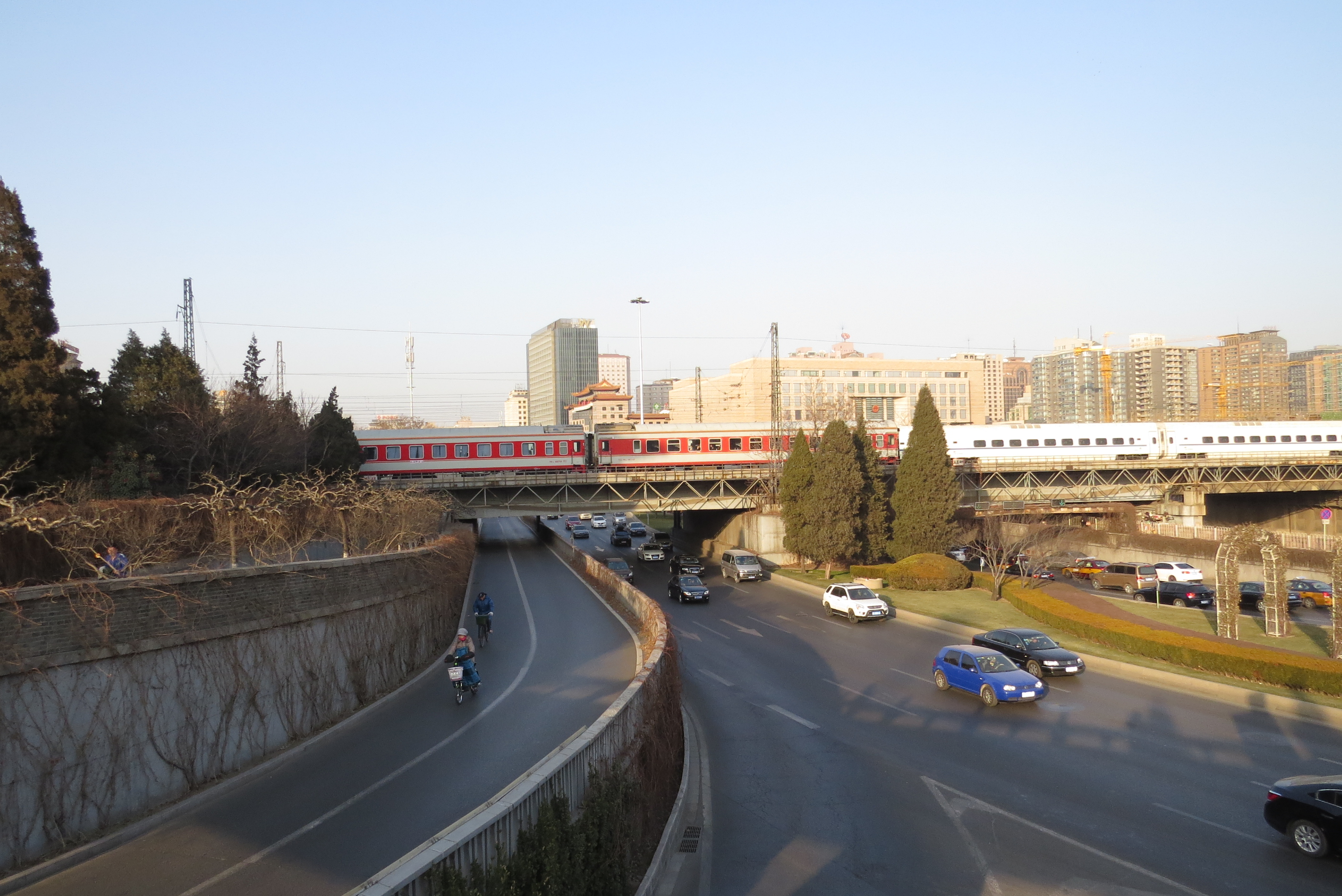 Seen at Dongbianmen Bridge.